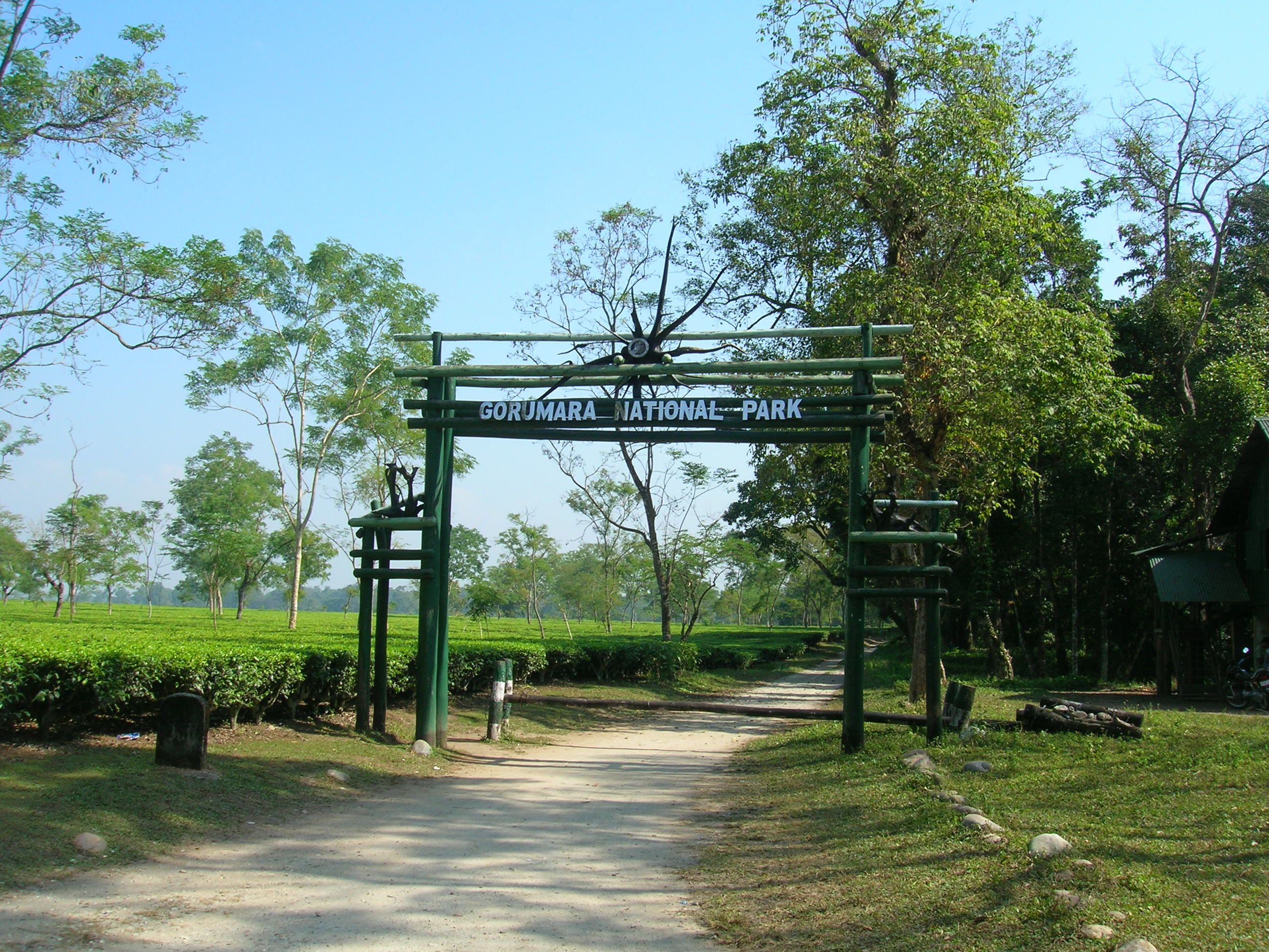 Gateway of Gorumara National Park